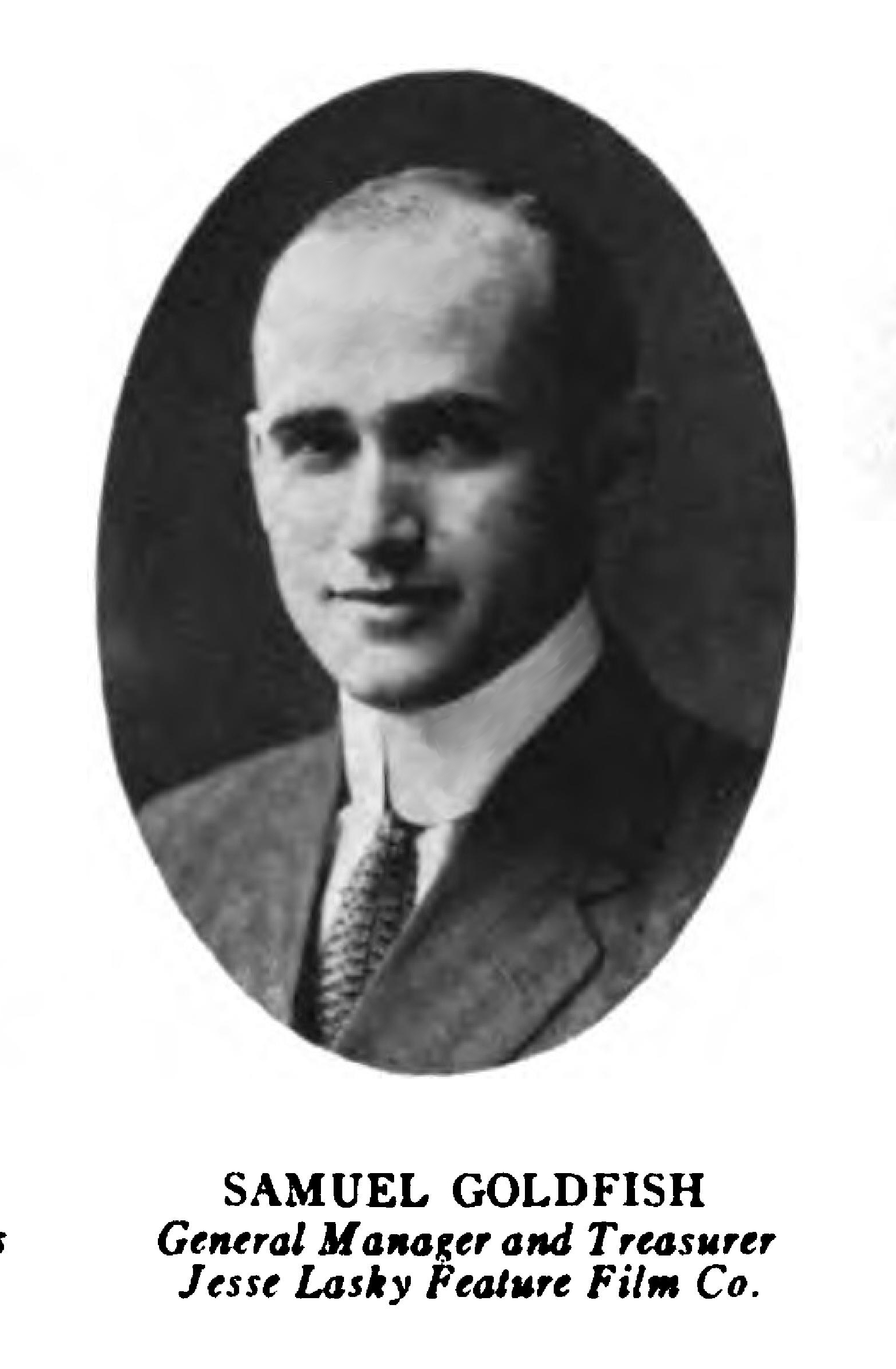 Samuel Goldwyn (c. July 1879 – January 31, 1974) was an American film producer